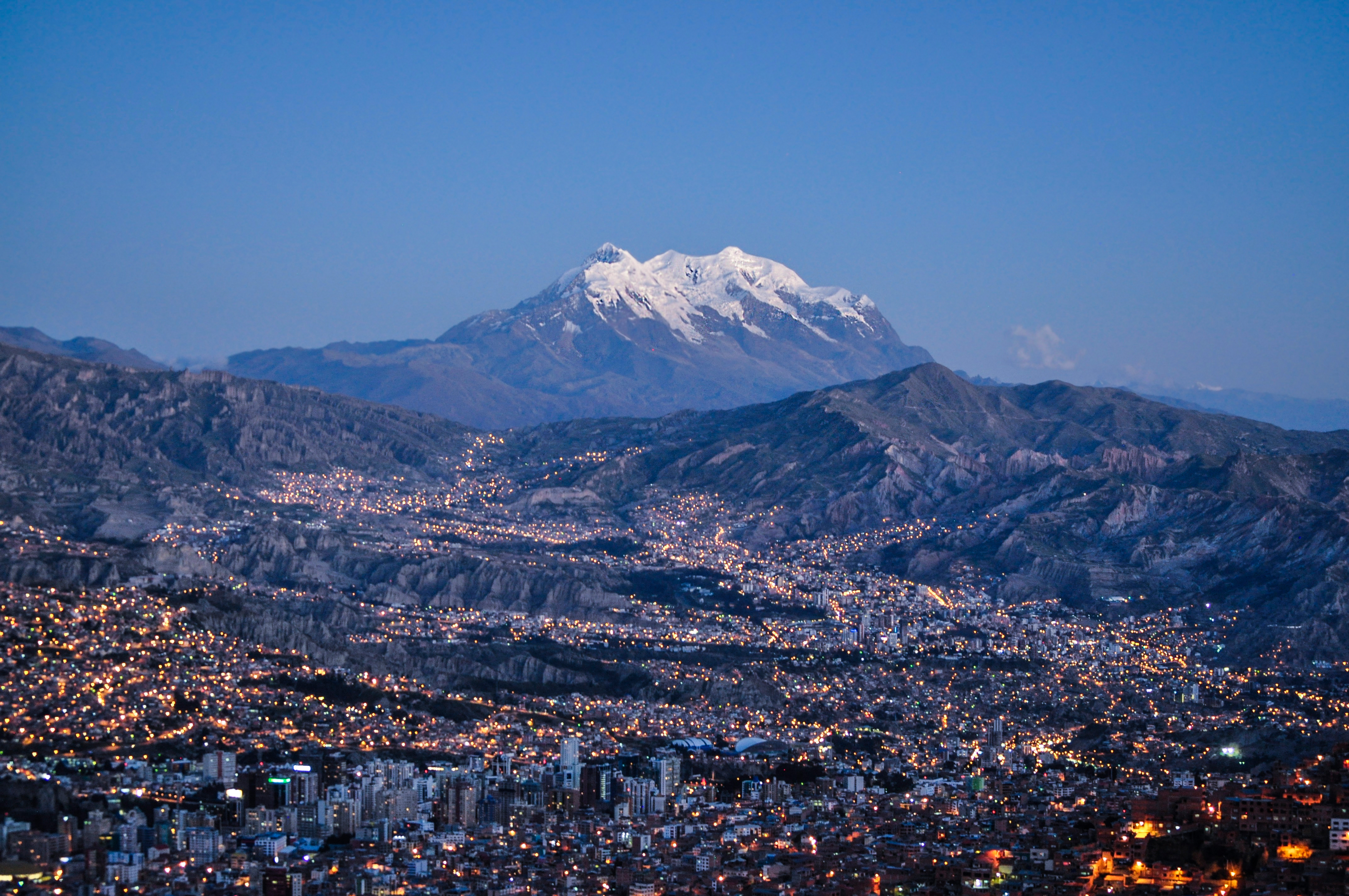 View of La Paz from El Alto with the Illimani mountain in the background.